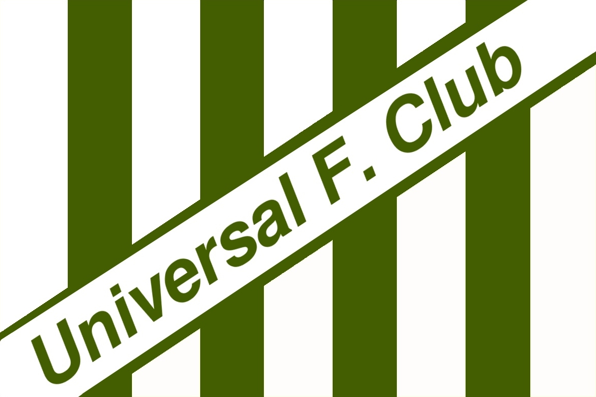 Bandera del Universal Fútbol Club, desaparecido equipo de fútbol uruguayo.